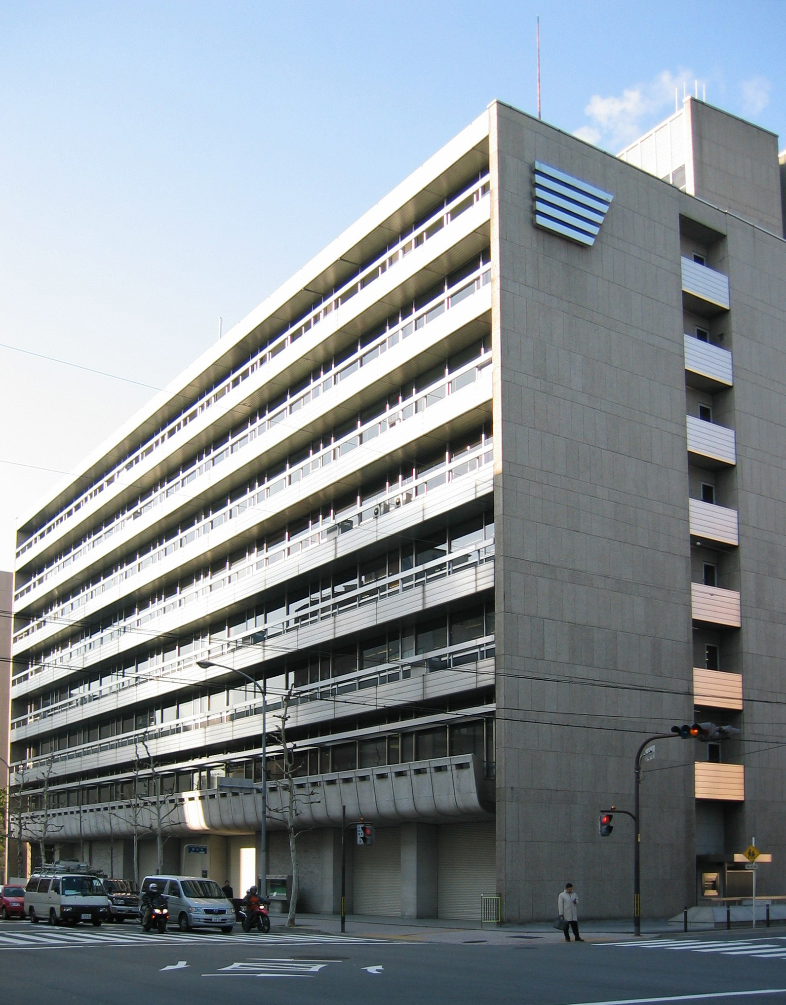 Photograph of Central branch (headquarters) of the Bank of Kyoto in Shimogyo-ku, Kyoto, Kyoto Prefecture, Japan.